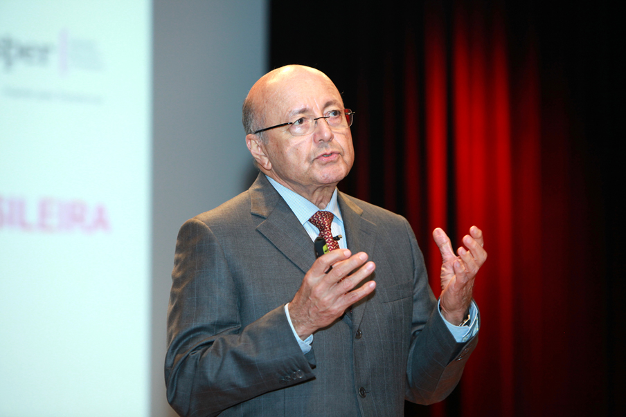 Maílson da Nóbrega talks about the Brazilian economy outlook.